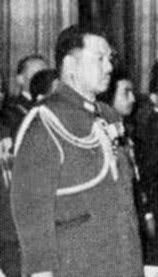 General Kitsuju Ayabe (1894-1980)